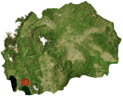 Location map of Resen, Republic of Macedonia.